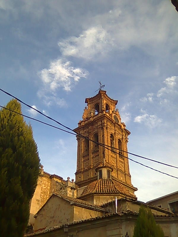 Tower of church of La Asuncion in Almansa (Spain) from Aragon street.